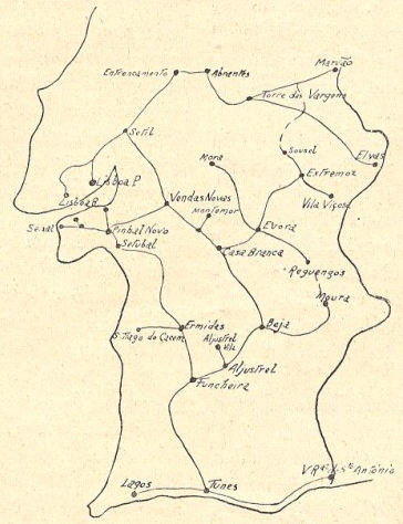 Map of the railway network in southern Portugal, in 1935. This image was published on the Gazeta dos Caminhos de Ferro magazine no. 1141, of the 1st July 1935, and scanned by the Hemeroteca Municipal de Lisboa.